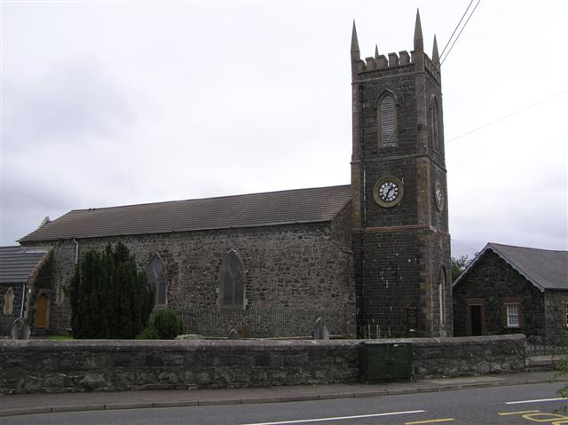 St Mary's Church of Ireland, Macosquin Located near the centre of the village.